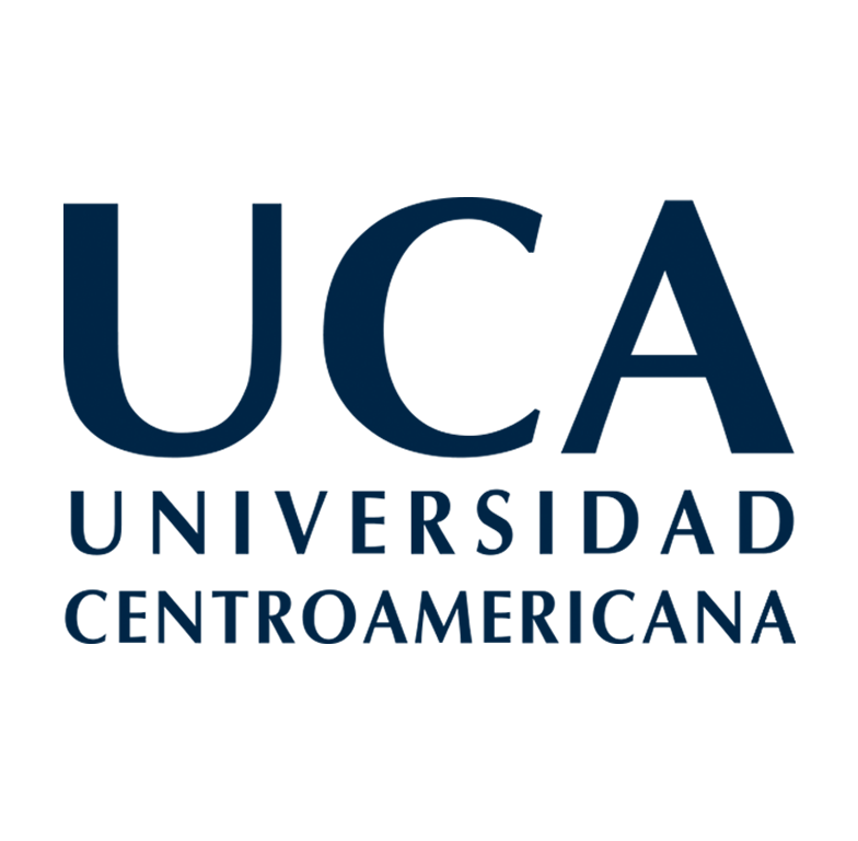 UCA de Nicaragua